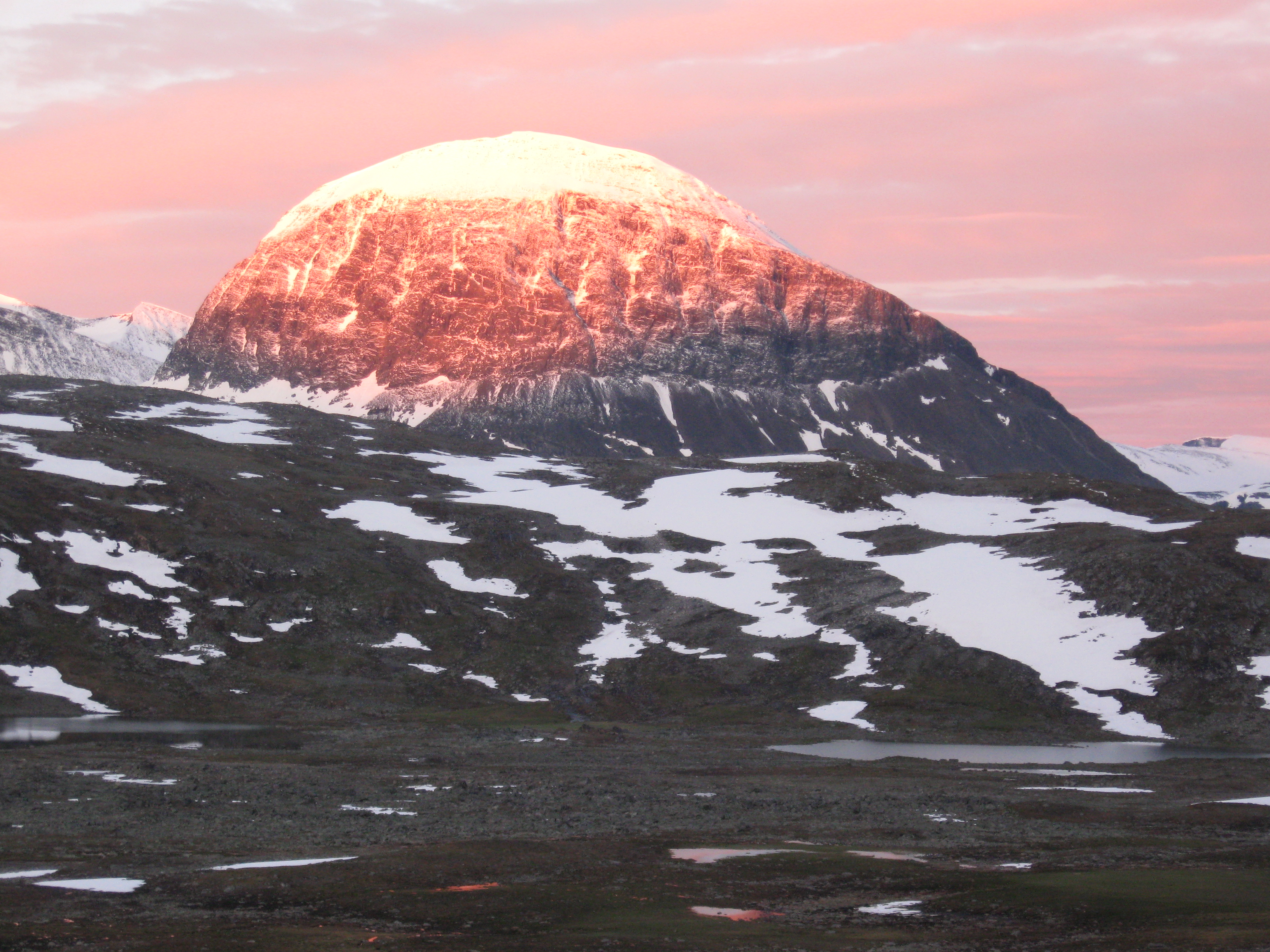 Mount Niak in Sarek National Park